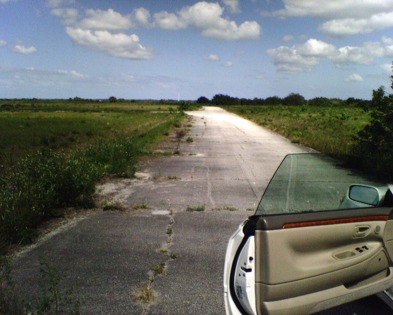 The Compound in Palm Bay, FL. Picture taken by Craig Ledebur and released into the public domain.